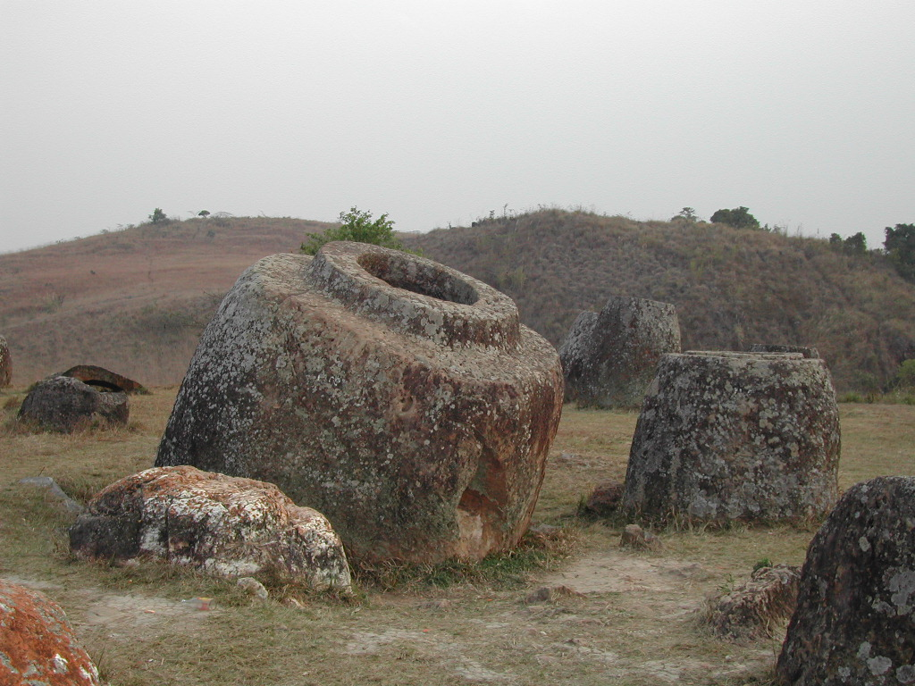 Plain of Jars, Site 1. This is the biggest jar of all sites.